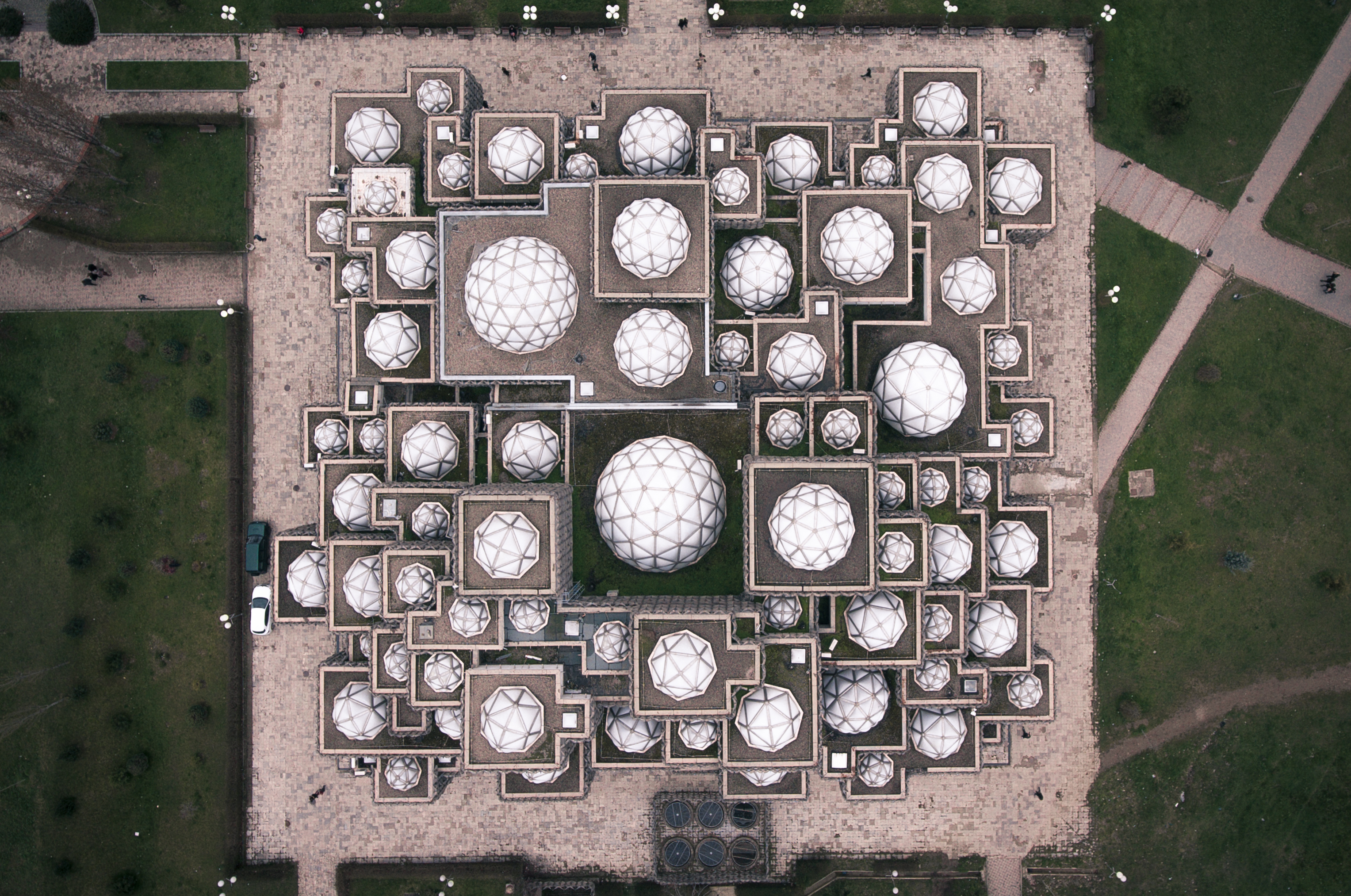 National Library of Pristina